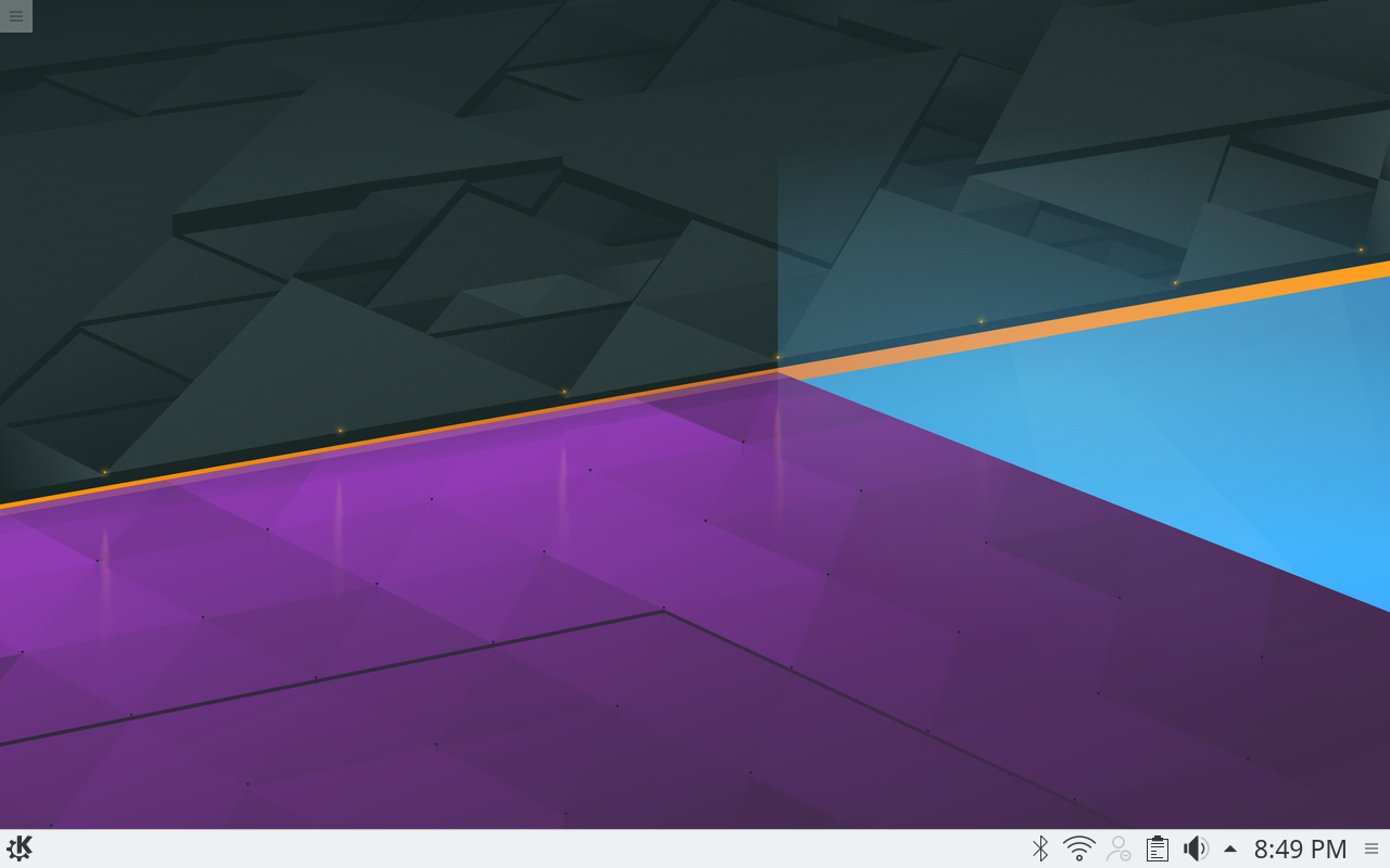 Screenshot of Kubuntu 16.10